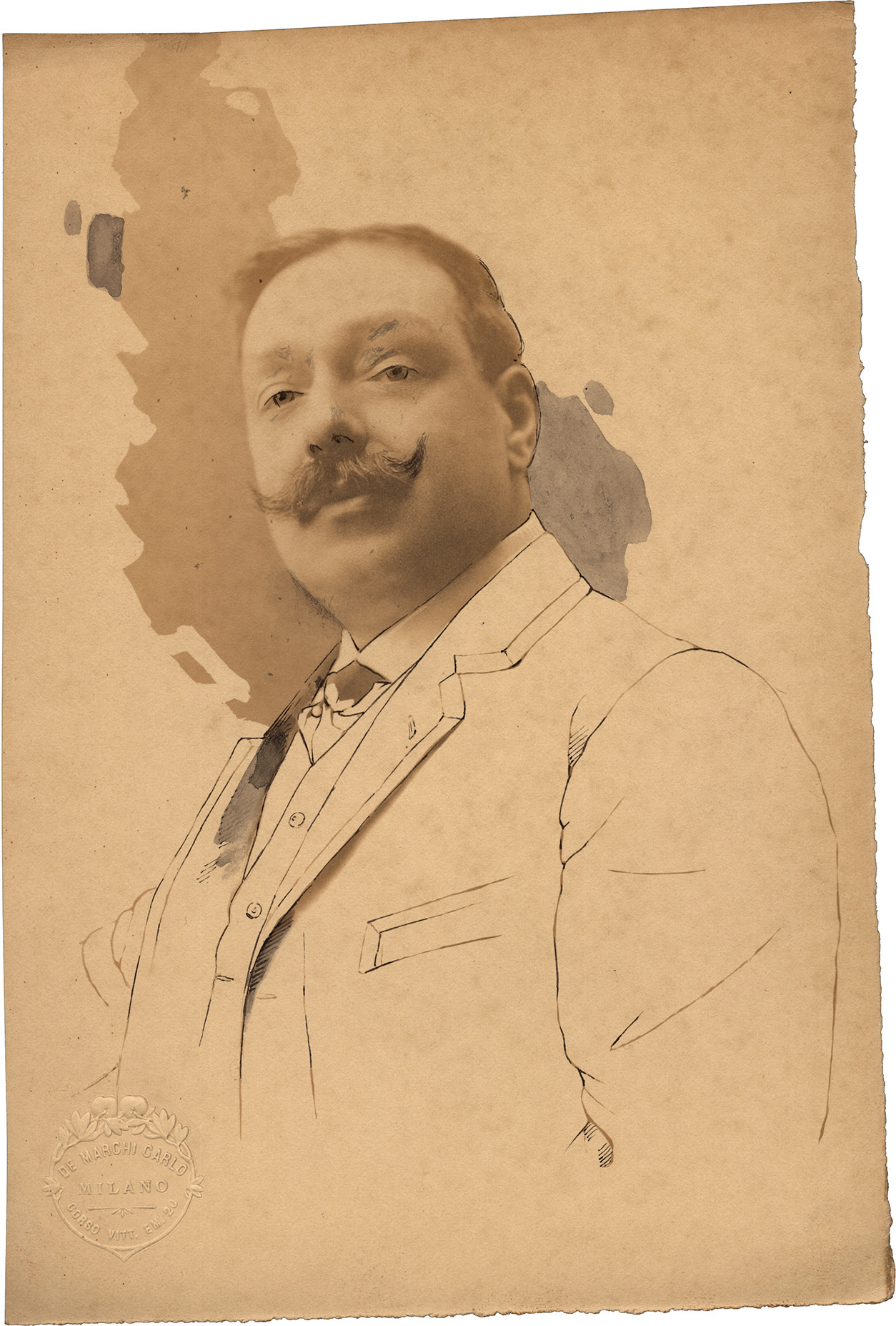 Portrait of Mario Pasquale Costa, composer (1858-1933). Photo by Carlo De Marchi, Milano, before 1933.